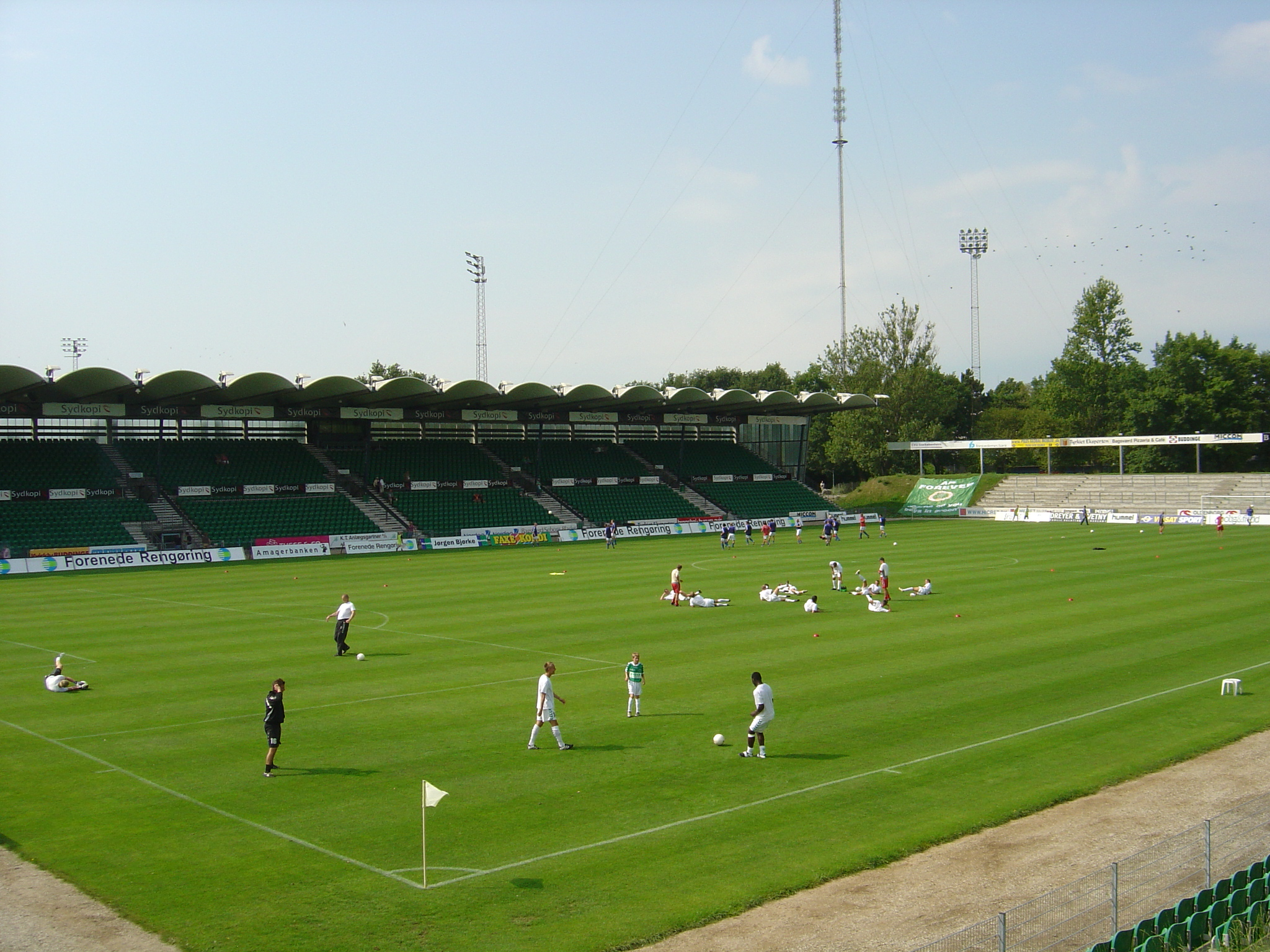 Gladsaxe Stadium - showing the other side of the stadium with the secondary stand, before a Danish 1st Division (level 2) match between Akademisk Boldklub and Boldklubben Fremad Amager on 21 August 2005.